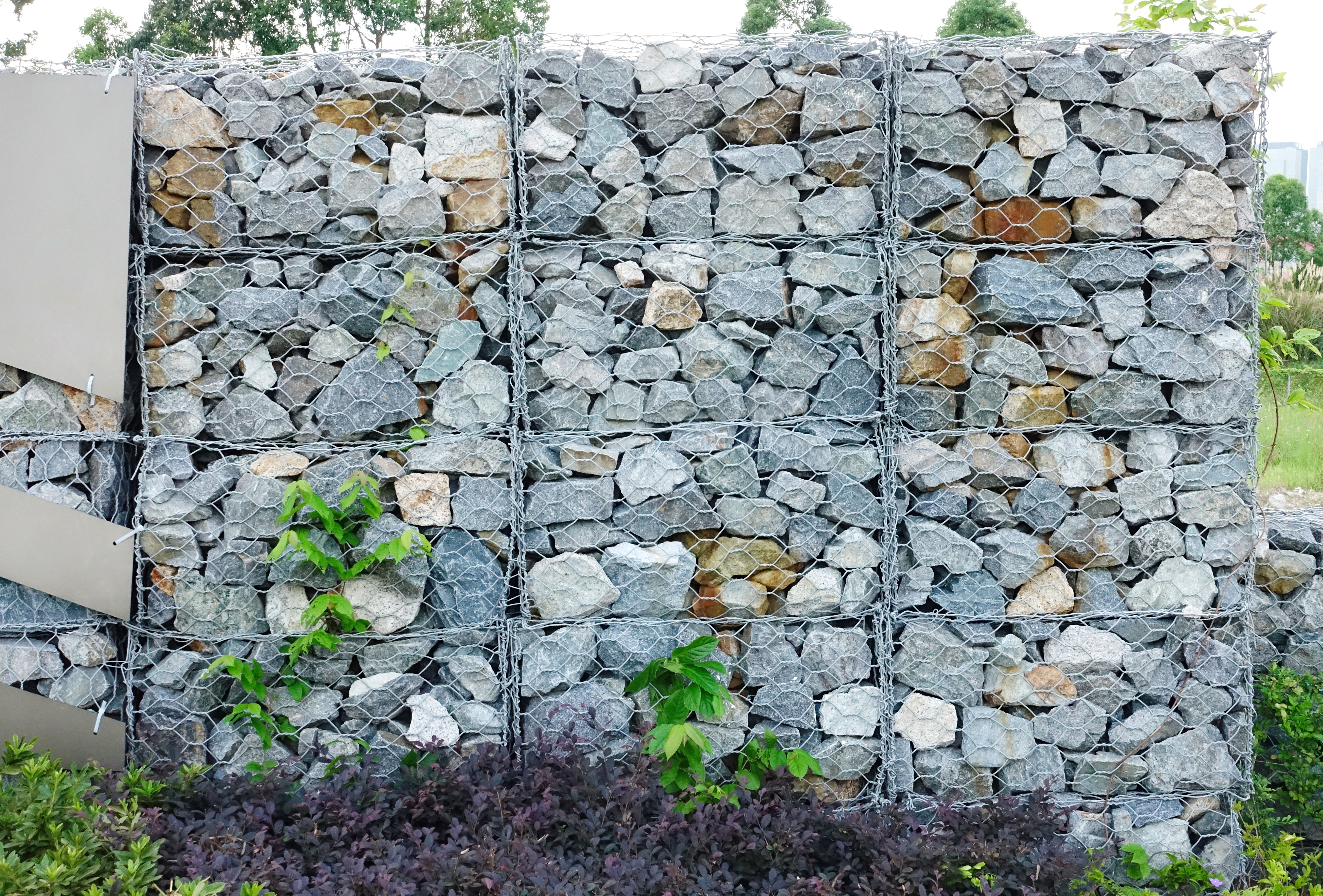 Gabions